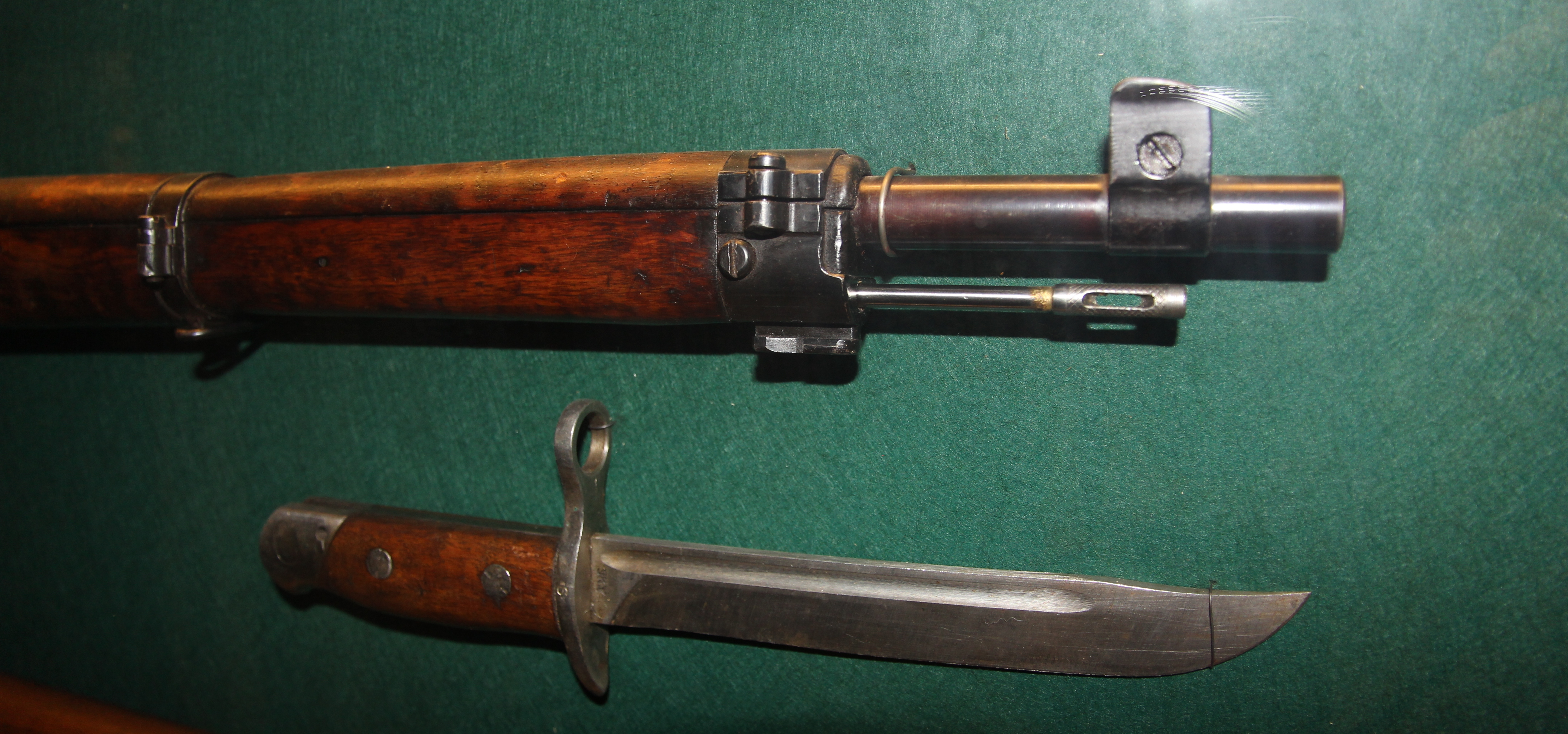 Muzzle and bayonet of the Finnish infantry rifle m/39 "Ukko-Pekka". Photographed in Mikkeli infantry museum.